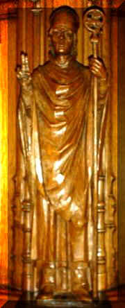 Author: Malcolm C Wilson &